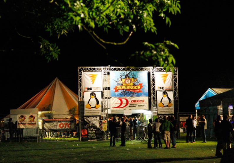 zeverrock